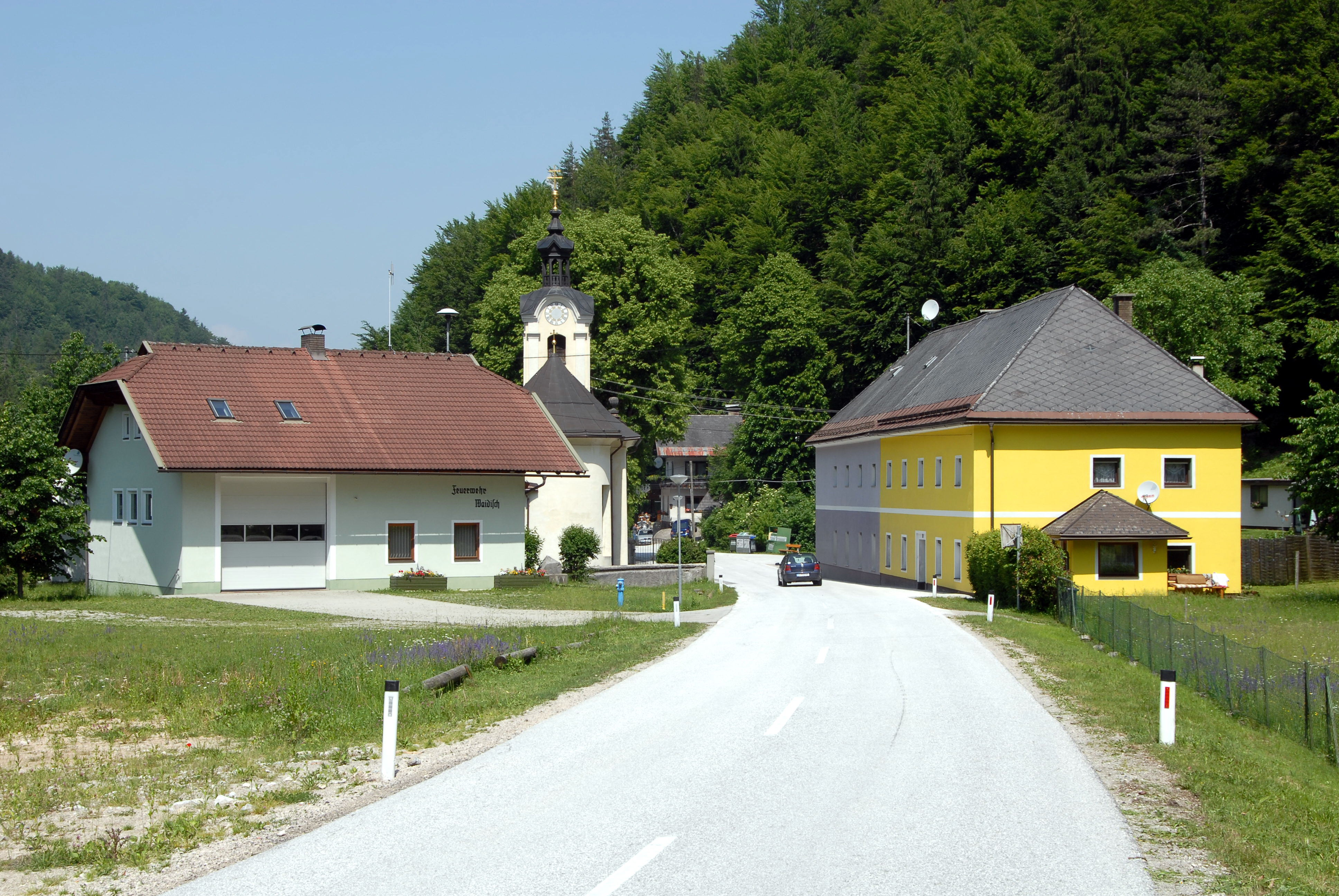 Locality Waidisch, municipality Ferlach, district Klagenfurt Land, Carinthia / Austria / EU